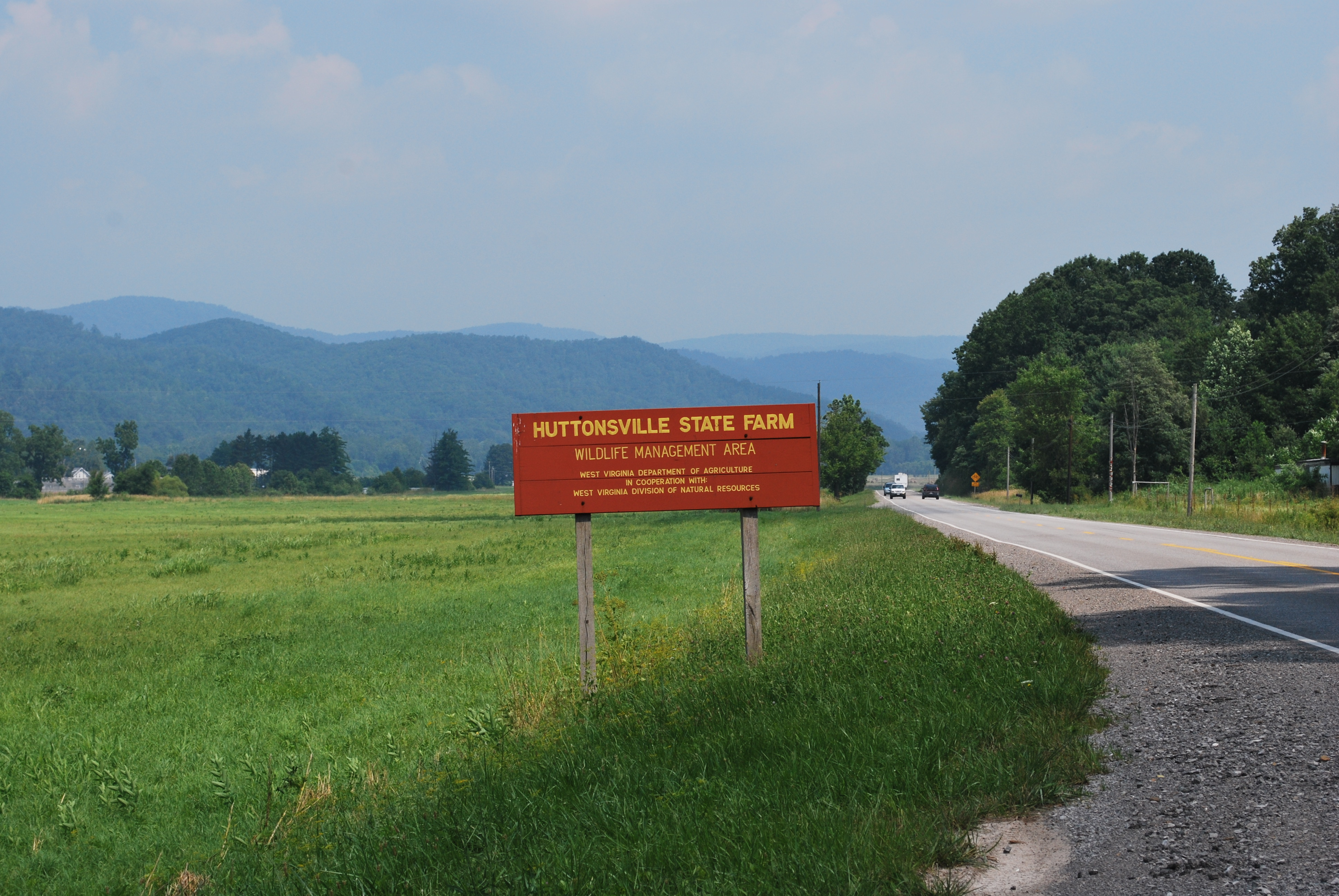 Entrance sign for Huttonsville State Farm Wildlife Management Area in Randolph County, West Virginia.